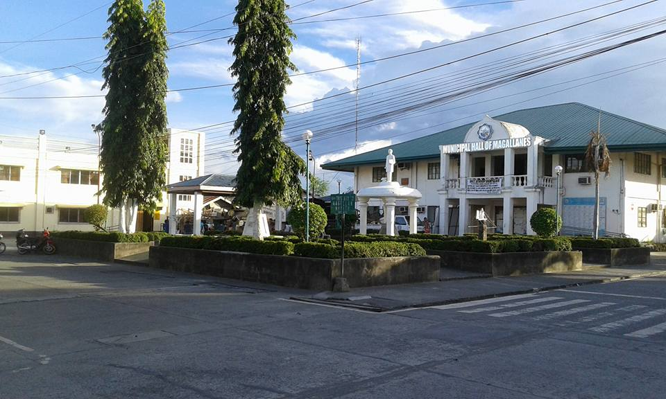 This is the Municipal Hall of Magallanes